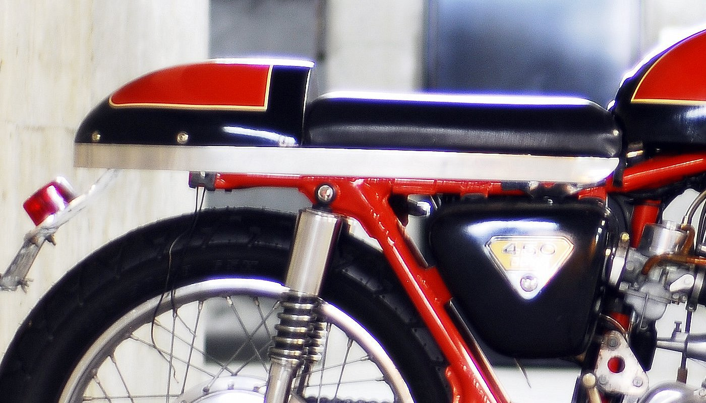 simply awesome